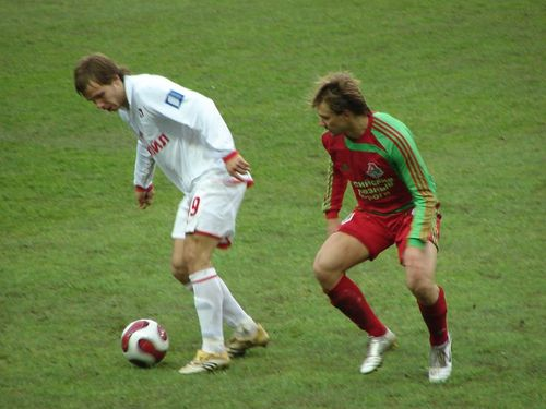 Dmitry Sychev & Roman Shishkin (left). 2007 Russian cup semifinal (FC Lokomotiv Moscow v.s. FC Spartak Moscow)